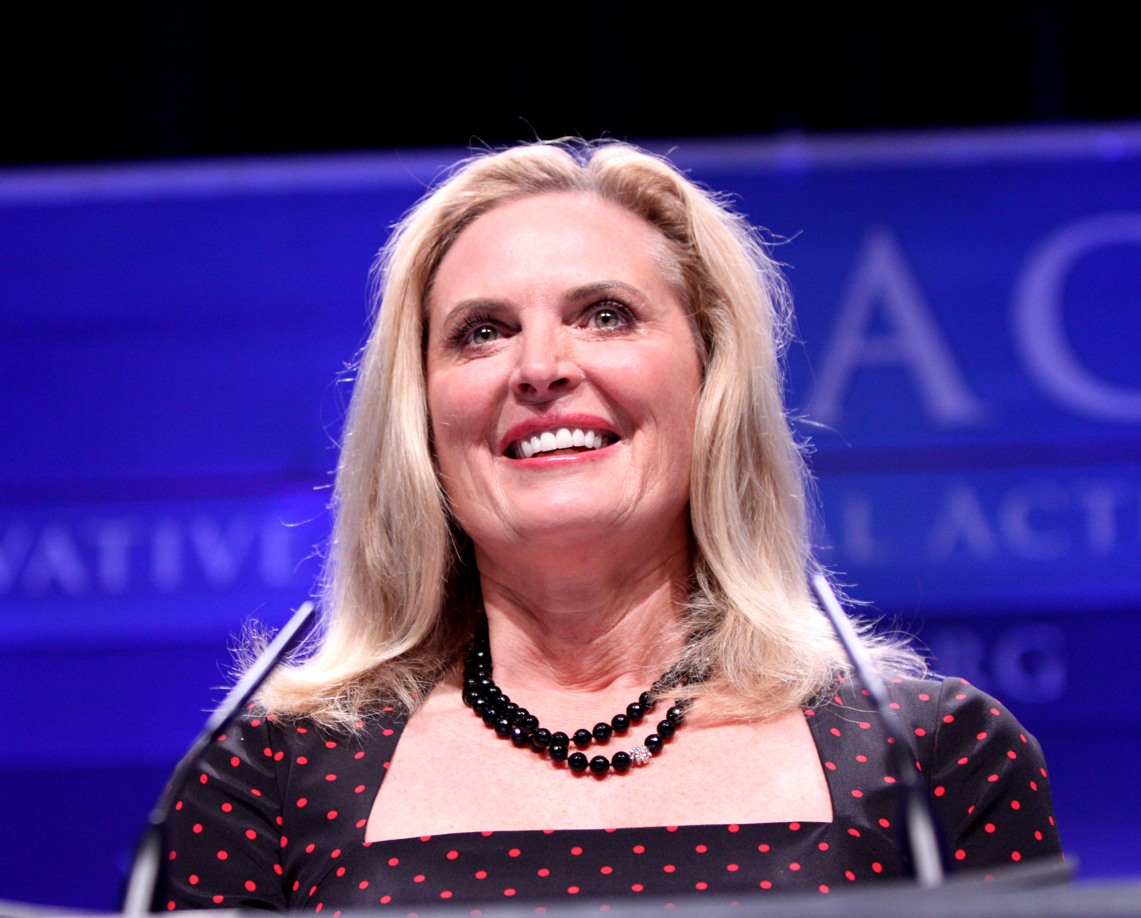 Ann Romney, wife of former Governor Mitt Romney, speaking at CPAC 2011 in Washington, D.C.